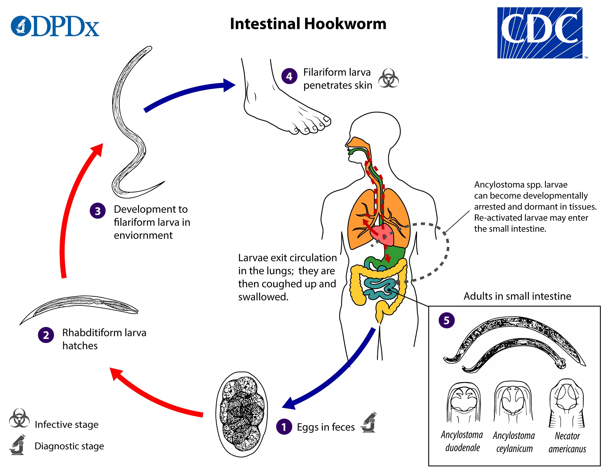 Hookworm (Intestinal) [Ancylostoma duodenale][Ancylostoma ceylanicum][Necator americanus]